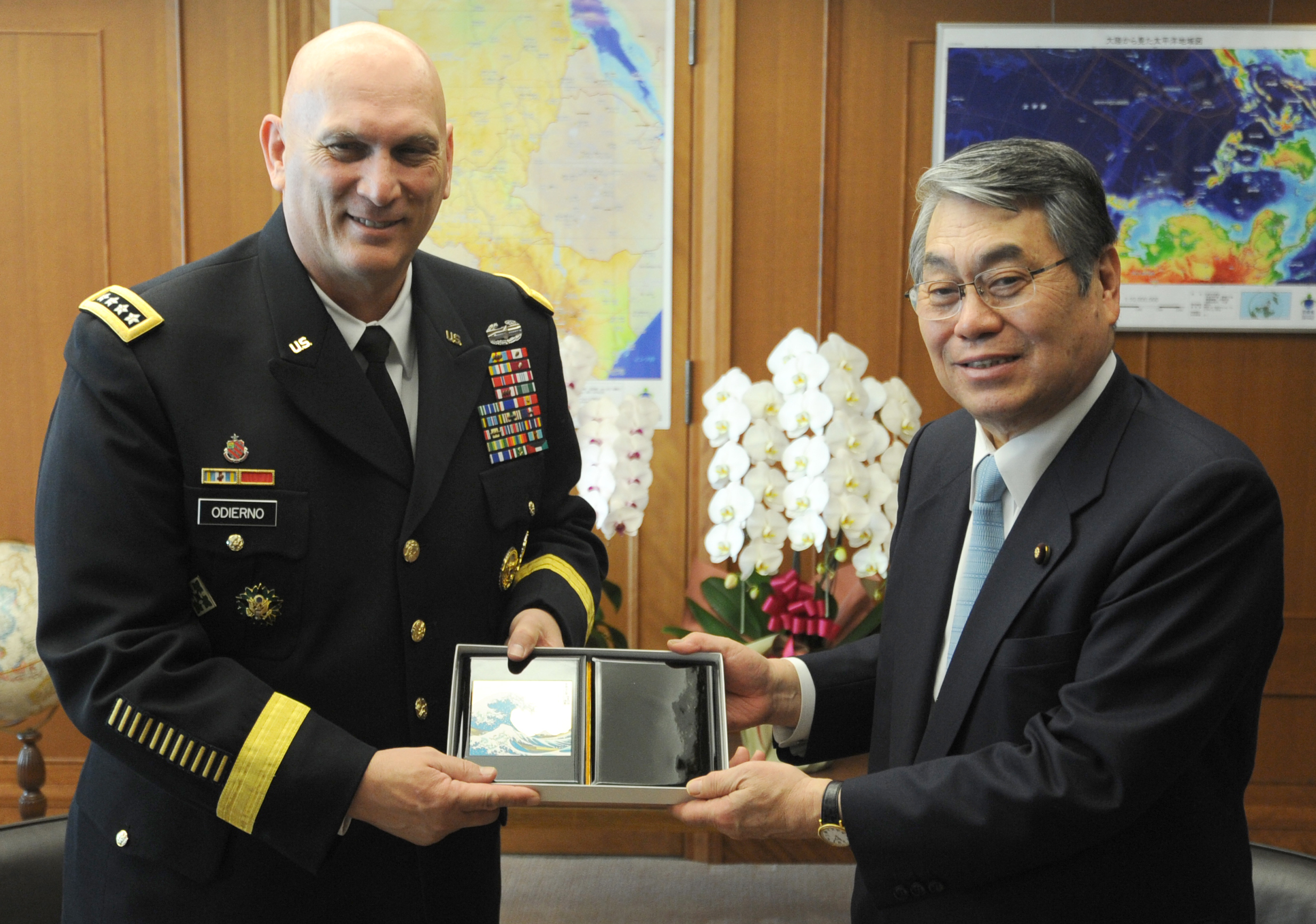 TOKYO (Jan. 19, 2012) -- Army Chief of Staff Gen. Raymond T. Odierno, left, receives a gift from Japanese Defense Minister Naoki Tanaka during a visit today to the Japan Ground Self-Defense Force headquarters at Camp Ichigaya in Tokyo. Odierno embarked on an Asia-Pacific theater tour Jan. 17, his first overseas trip since becoming chief of staff in September 2011, to discuss with various leaders the U.S. Army's role in helping to shape the future of the Pacific region. While in Japan, the general also met with U.S. Ambassador John Roos, JGSDF Chief of Staff Gen. Eiji Kimizuka, and military leaders at the U.S. Army Japan headquarters at Camp Zama.